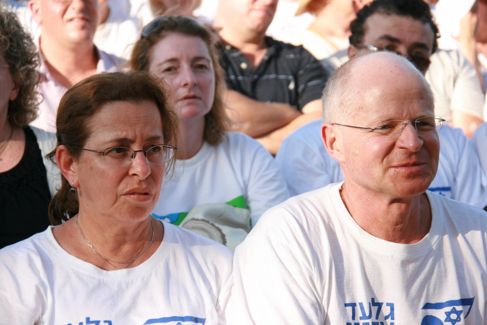 Aviva and Noam Shalit watching the open-air concert by the Israel Philharmonic Orchestra and show solidarity with captive soldier Gilad Shalit in \"Ashkol park\", near the Gaza border, when he been kidnap.